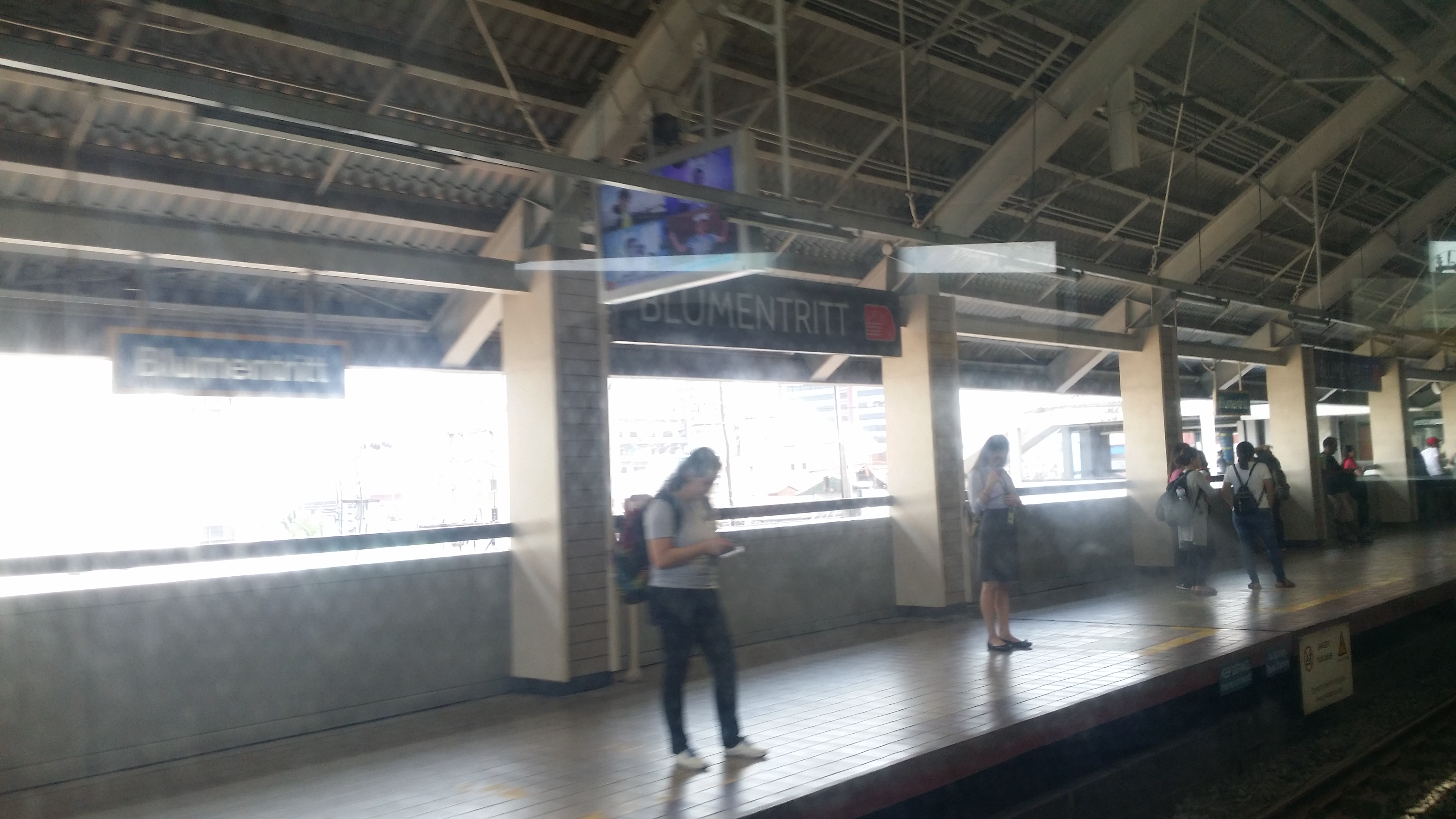 A concourse and platform of LRT Blumentritt Station